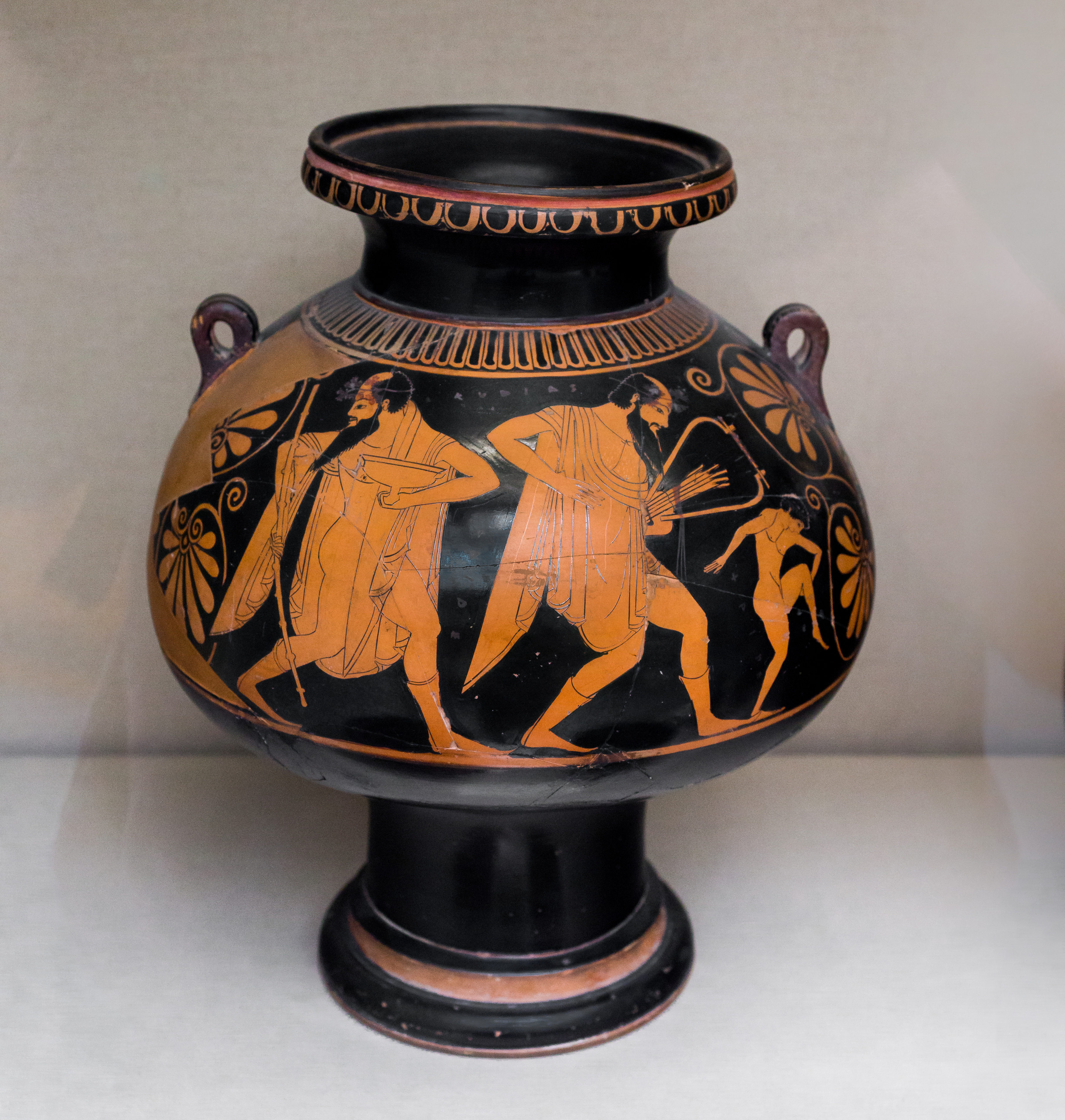 object type / vase shape: attic red figure psykter (wine-cooler) - description side A: two bald-headed men with stick, kylix and lyre and a naked boy dancing at the komos; inscriptions: (NI)CHARCHON KARTA DIKAIOS; KYDIAS CHAIRE CHAIRE - production place: Athens - painter: Dikaios Painter (style of Euthymides?) - period / date: late archaic, ca. 510-500 BC - material: pottery (clay) - height: 33 cm - museum / inventory number: London, British Museum 1865,0103.30 Cat. Vases E 767 - bibliography: John D. Beazley, Attic Red-Figure Vase-Painters, Oxford 1963(2), 31, 6 - Please note: The above museum permits photography of its exhibits for private, educational, scientific, non-commercial purposes. If you intend to use the photo for any commercial aime, please contact the museum and ask for permission.